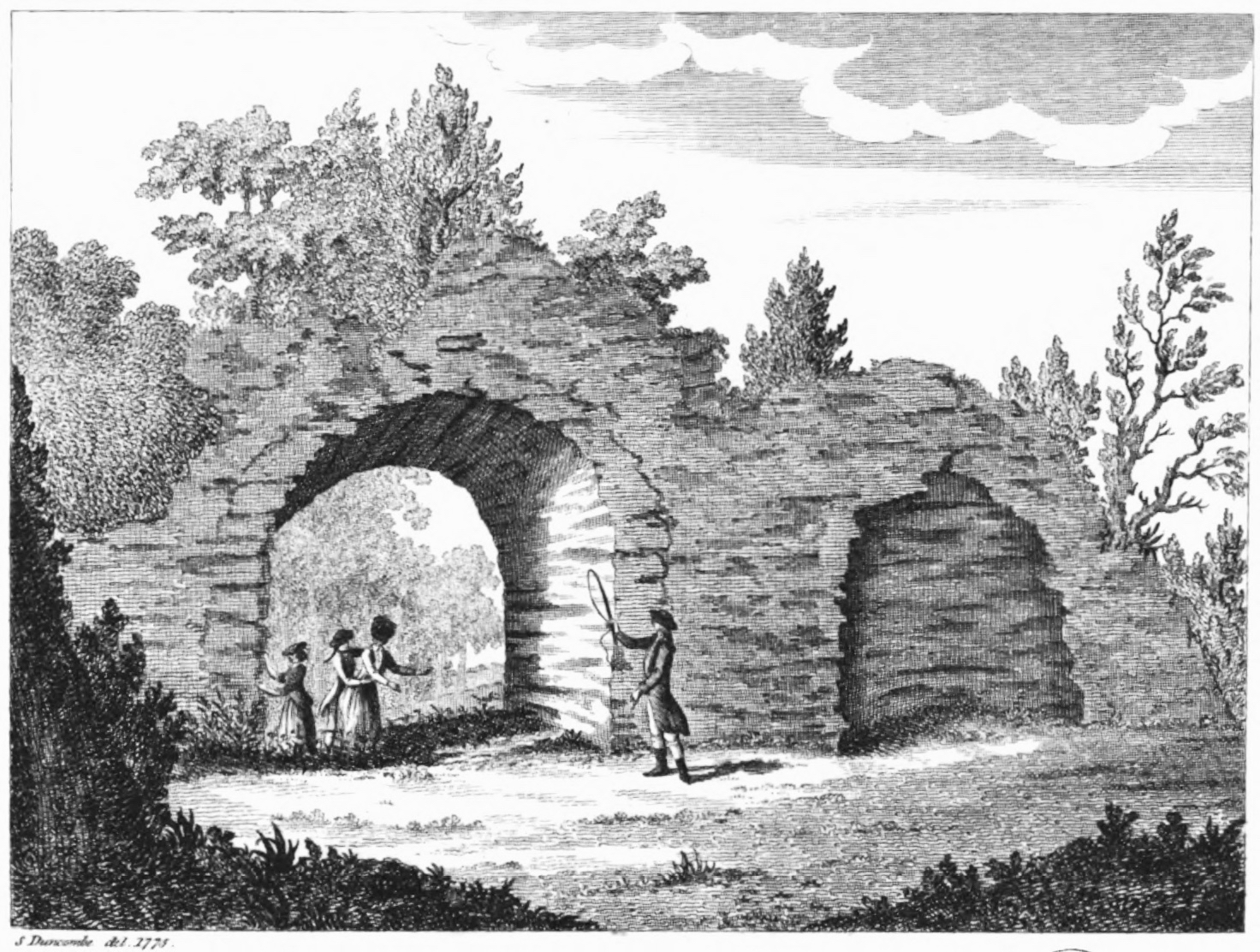 Image of the ruined gatehouse to Ford Palace in Kent, England.